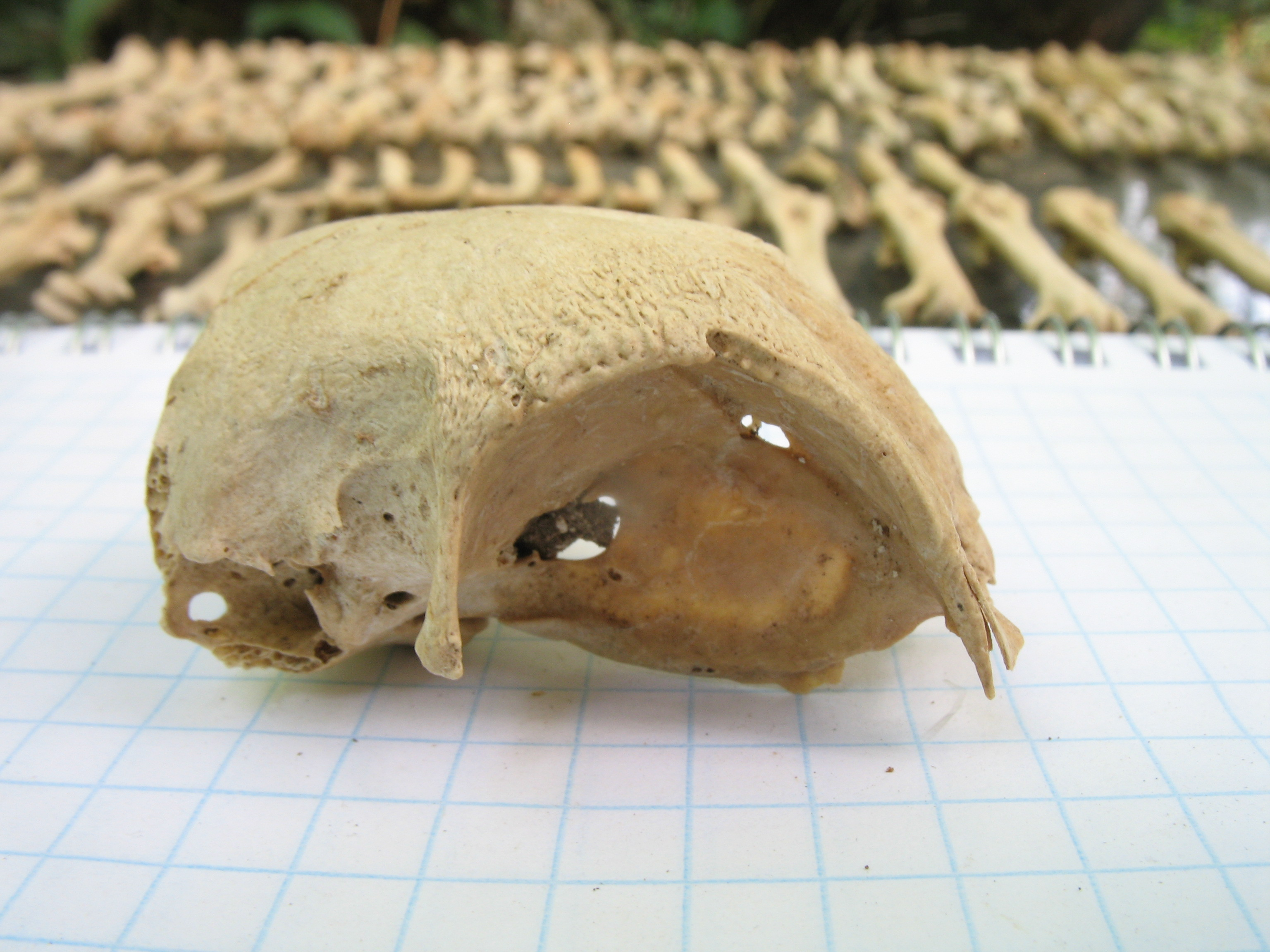 During the archaeological excavations of the medieval princely palace in the "cave city" Mangup Kale 246 bones chickens were found. The bones belonged to 17 individuals. Measurements of bone allow to reconstruct the breed characteristics of the species.